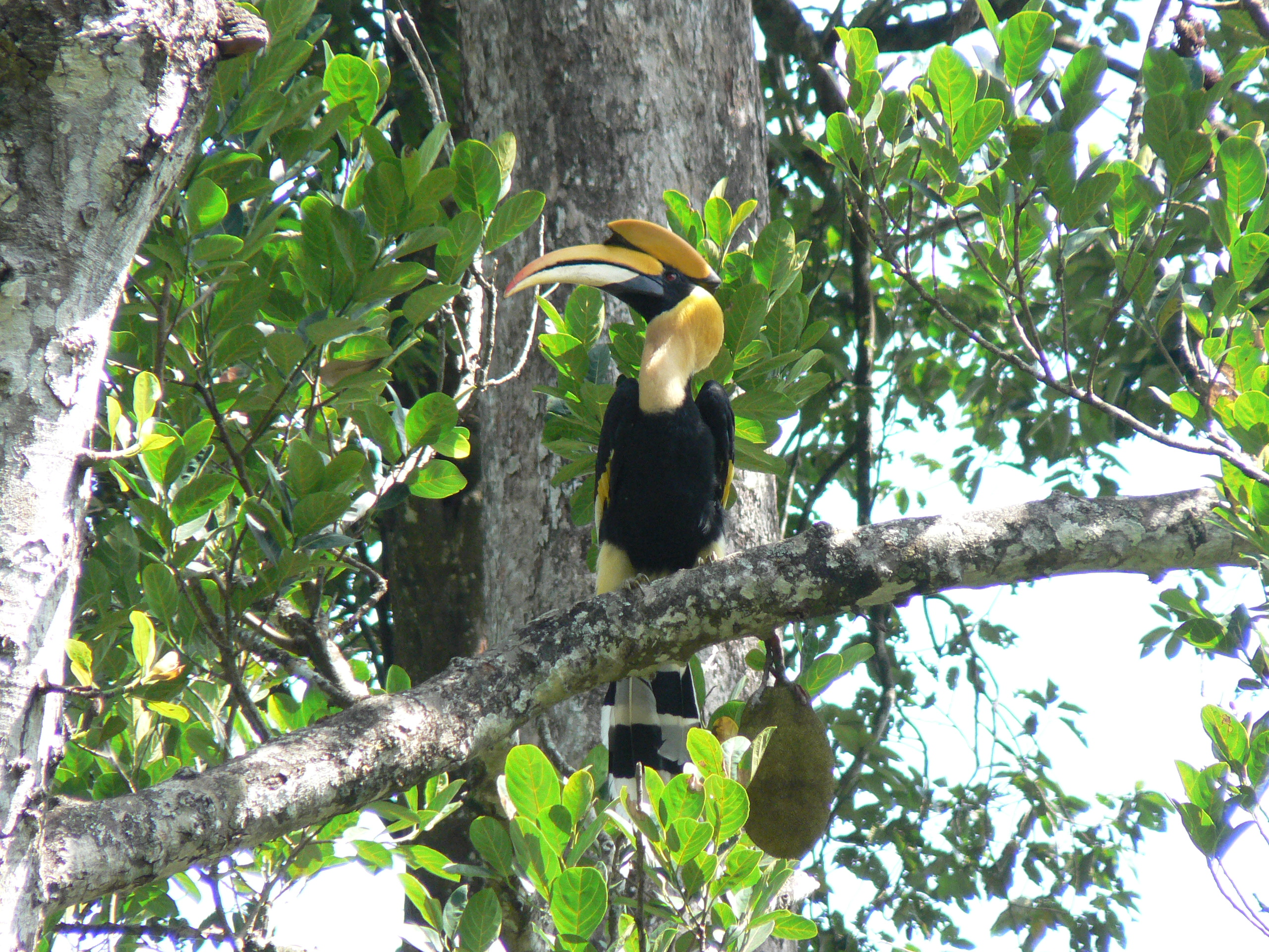 Great Hornbill male on a jackfruit Artocarpus heterophyllus tree in the Anamalai hills, Western Ghats, India